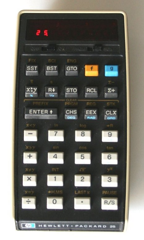 Own Picture, EOS-350D, ISO400, M